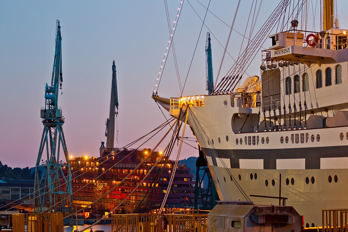 Brodosplit Shipyard with Ultramarine and Flying Clipper